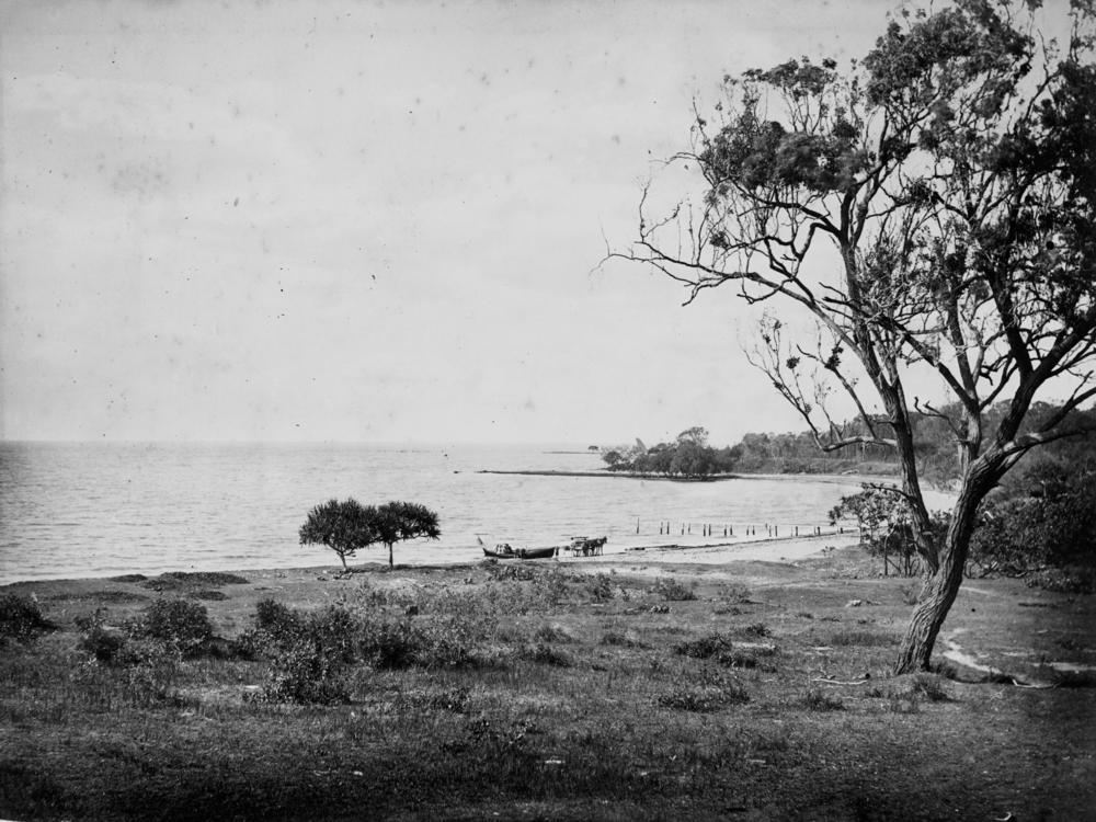 Woody Point shoreline, ca. 1876 Woody Point is on the southern tip of Redcliffe Peninsula, on the shores of Bramble Bay. In 1799, Matthew Flinders landed on the peninsula and named the location Red Cliff Point after the colours in the cliffs. In 1823 the peninsula was selected as the site of Queensland s first penal colony but, by 1825 the prisoners were moved further up the Brisbane River to escape the mosquitoes and the menace posed by local Aborigines. Redcliffe was once a small seaside retreat 40 km north of Brisbane. When the Hornibrook and Houghton Highways linked Brighton, an outer Brisbane suburb, to the Redcliffe peninsula, Redcliffe then became much more accessible and grew as part of Brisbane's suburban sprawl.